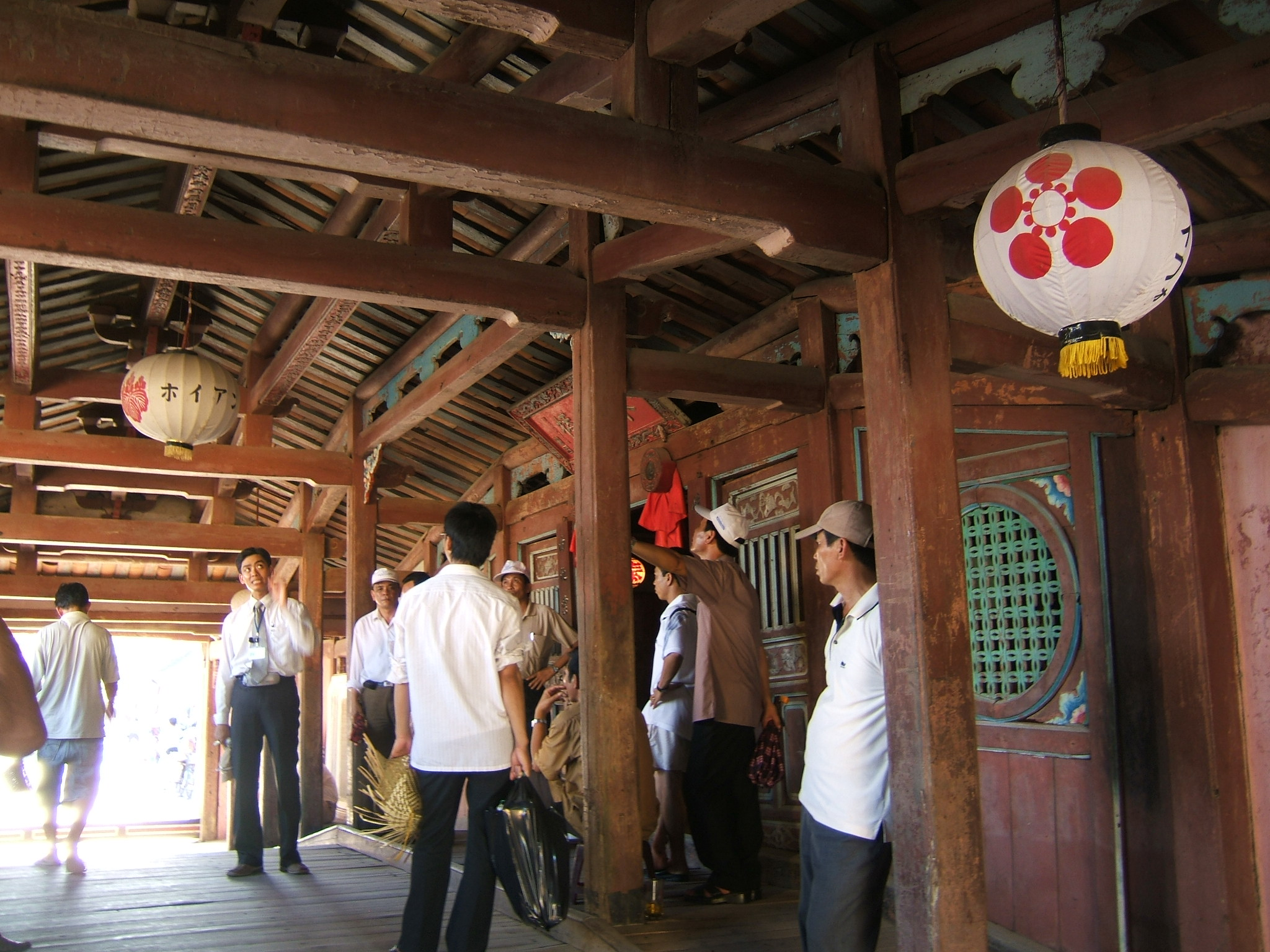 Inside of Chùa Câu, a Japanese-style pagoda bridge in Hoi An, Quang Nam, Vietnam.